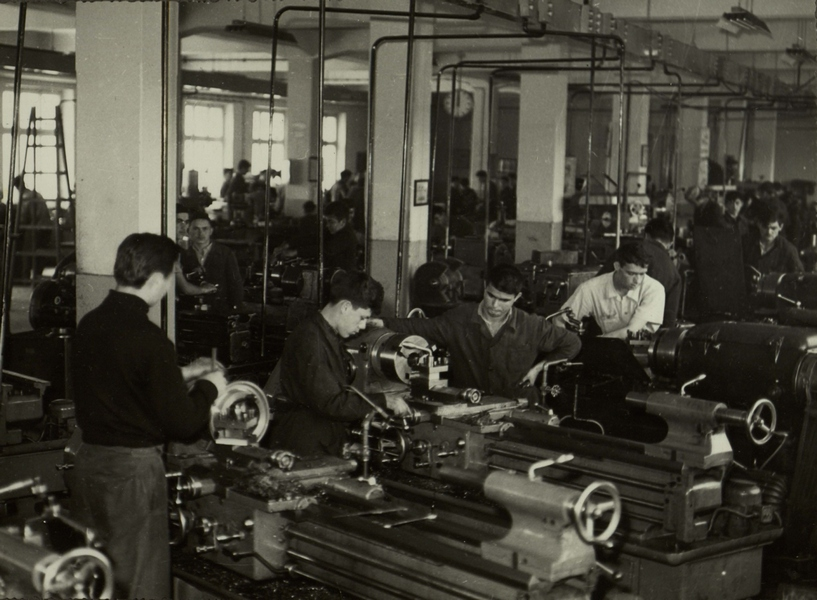 Factory Prva Petoletka Trstenik